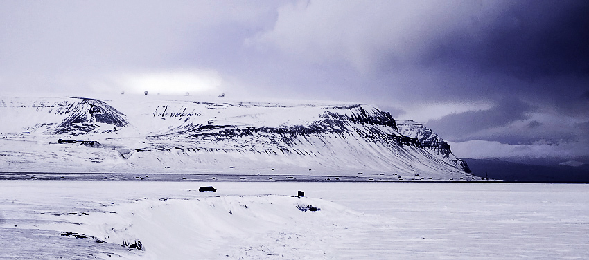 Platåberget with Svalsat and Svaldbard airport Longyear by its foot.